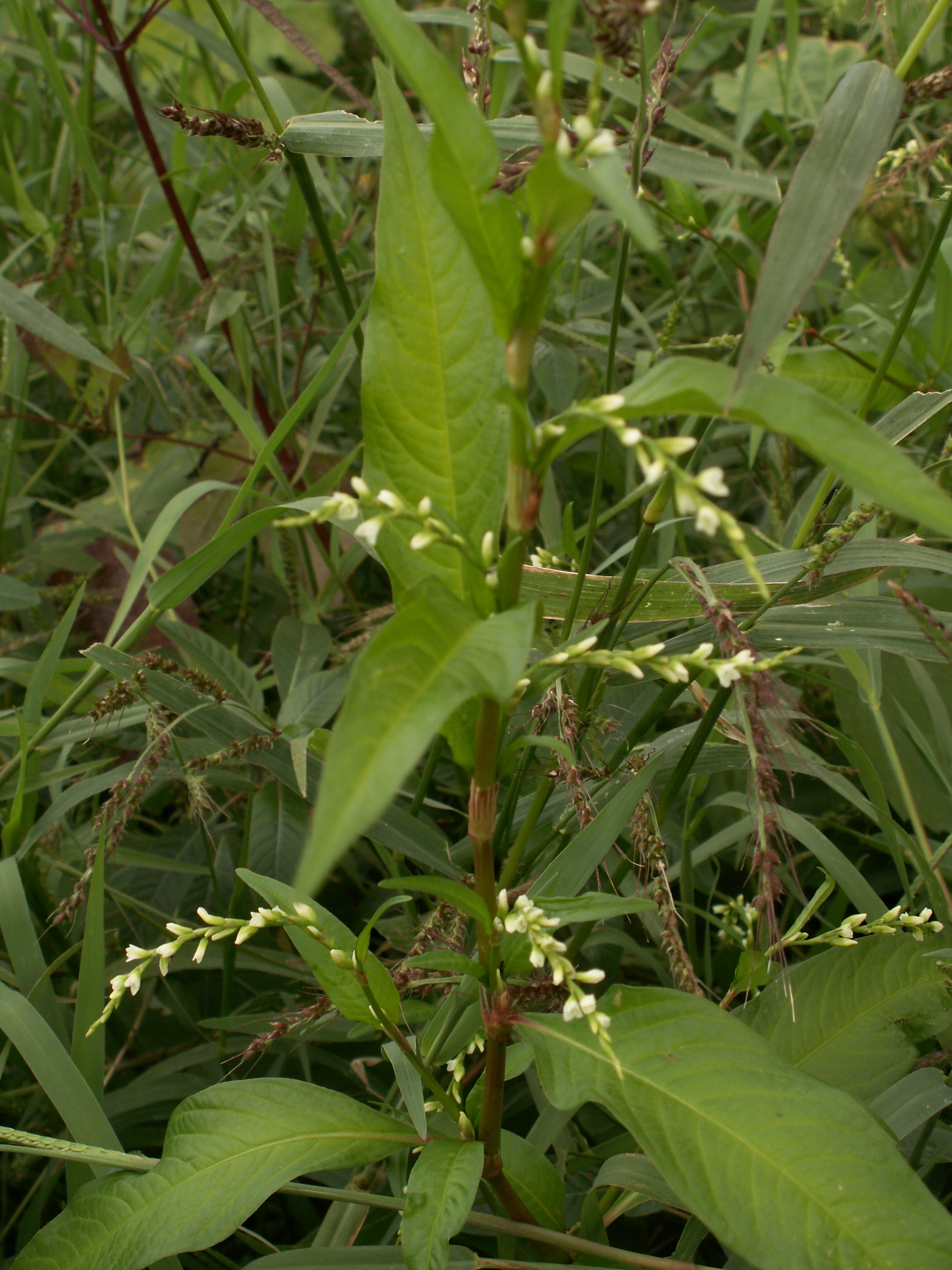 Polygonum hydropiper author : user:Aroche Source : own work